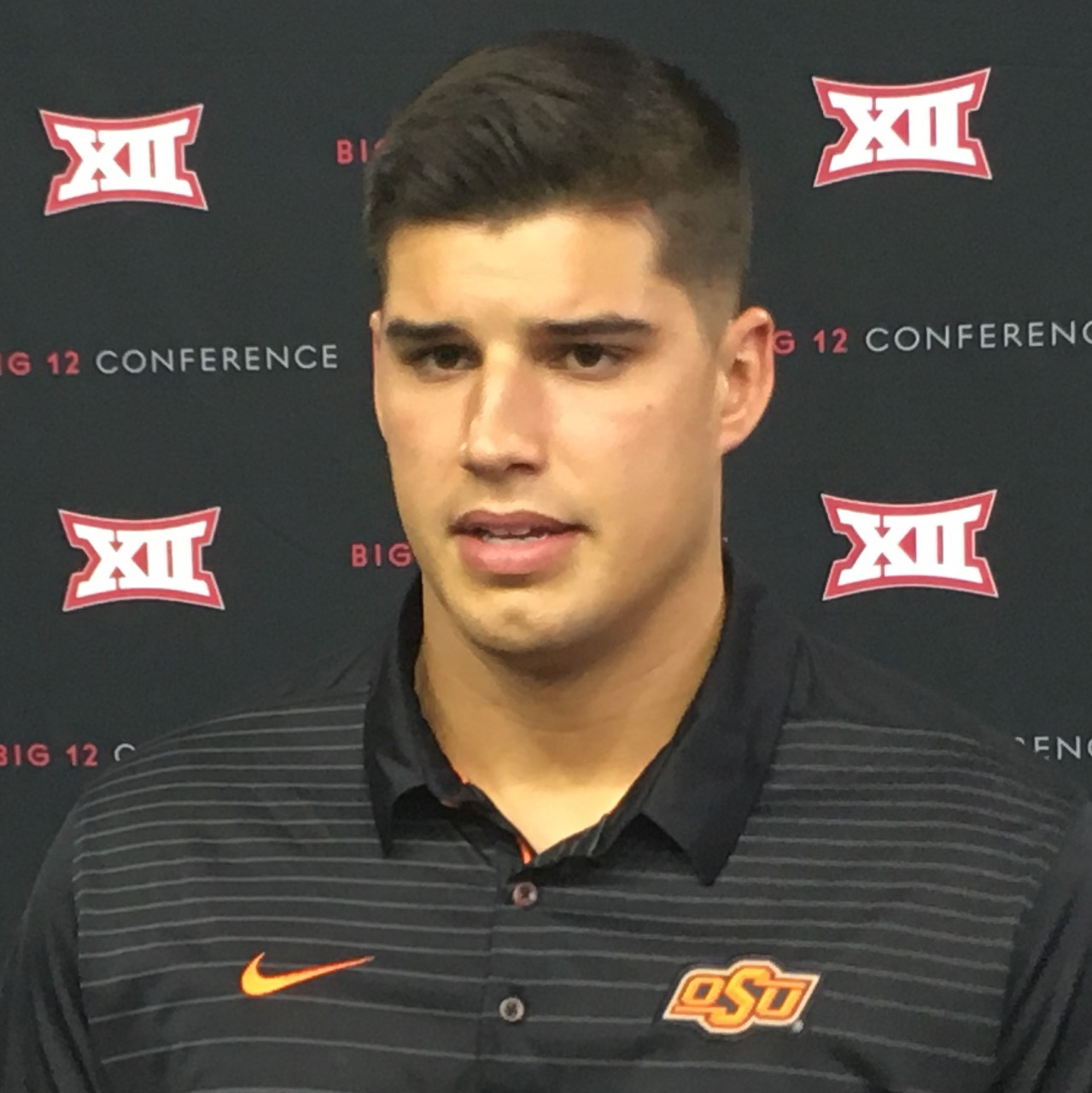 Mason Rudolph, quarterback of the Oklahoma State Cowboys football team, at the 2017 Big 12 Conference Media Days in Frisco, Texas.